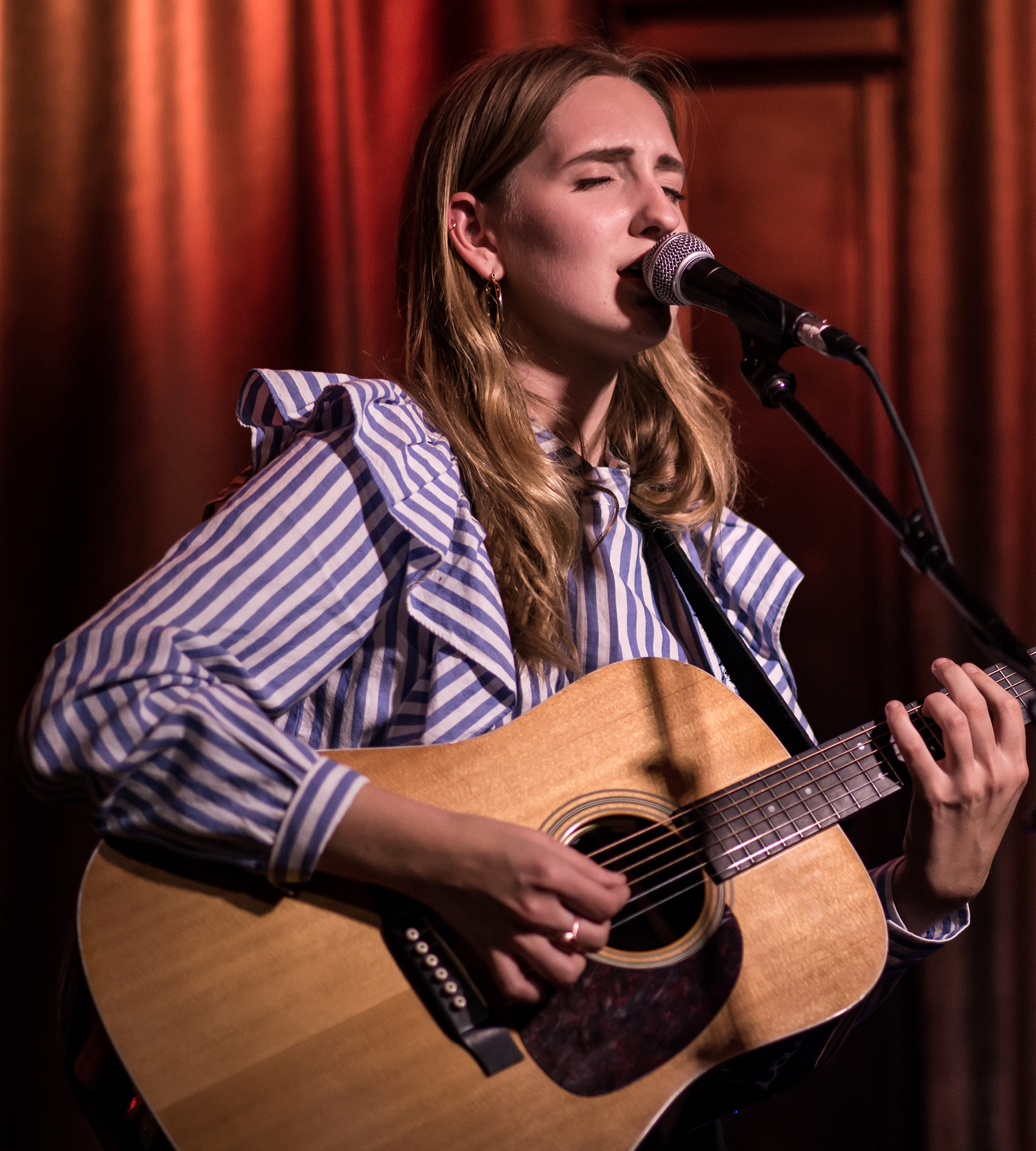 Madison Cunningham playing acoustic guitar in 2017